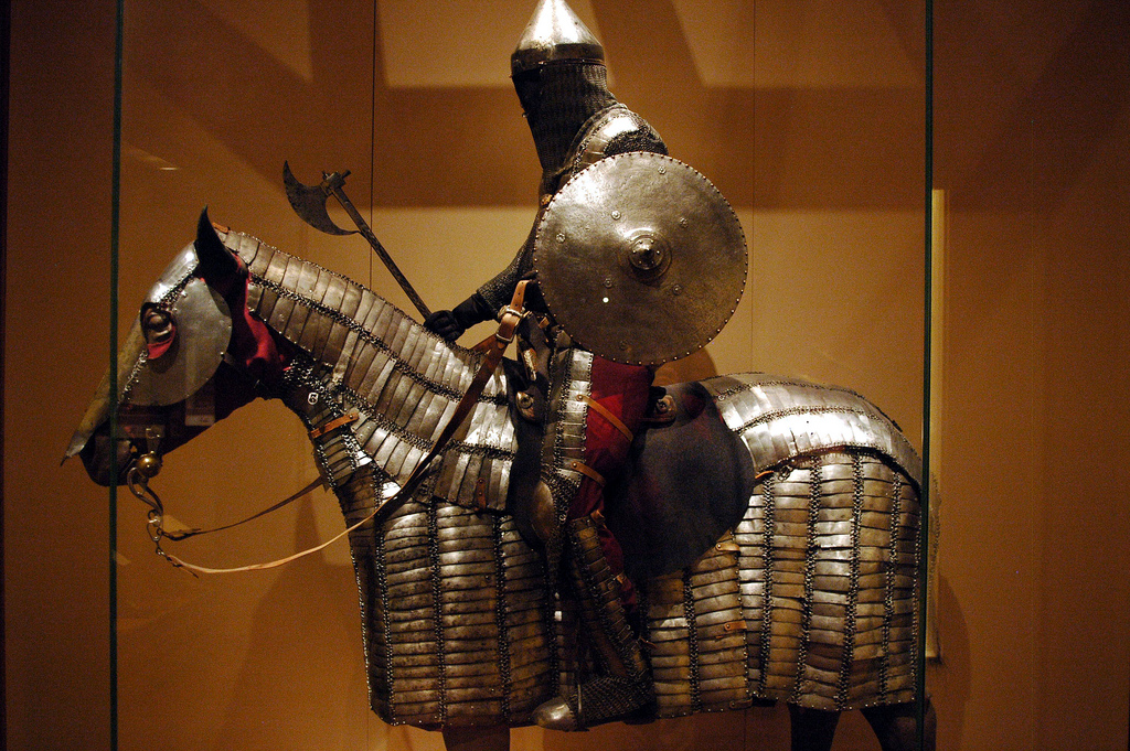 Armors for Man and Horse. Steel, leather. Syrian, Iranian and Turkish, comprehensively about 1450-1550. The Metropolitan Museum of Art, New York.